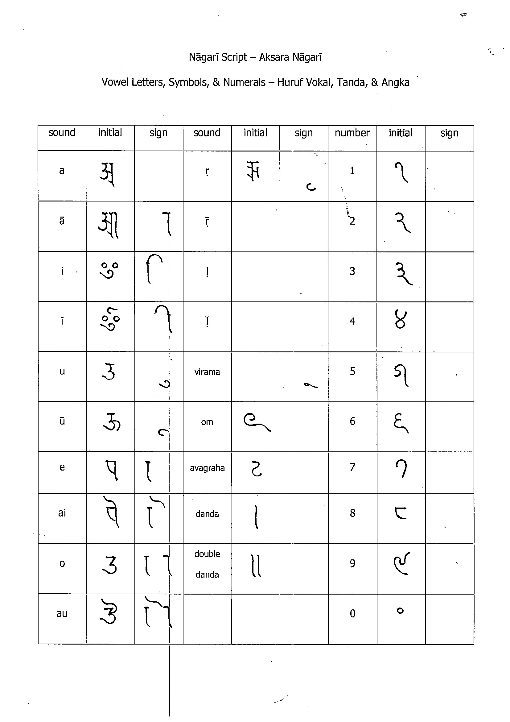 Table of vowel letters, symbols, and numeral of Nagari Script.